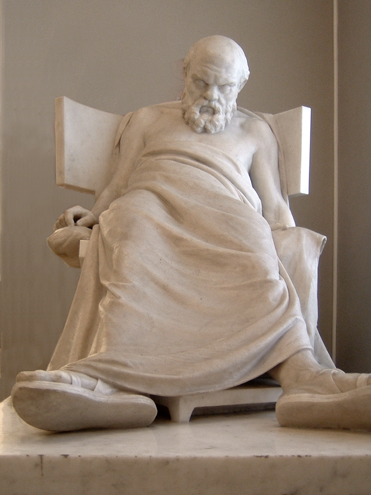 Mark Antokolski Death of Socrates, 1875 Russian Museum, Photography is mine